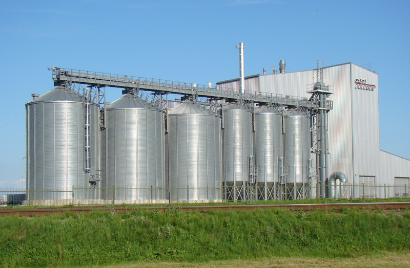 "Arvi pašarai"